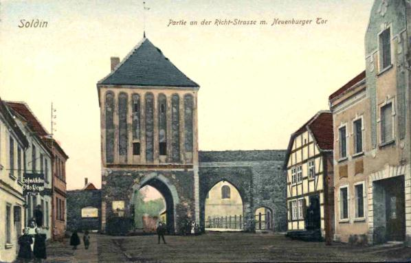 Soldin, Neumark about 1900